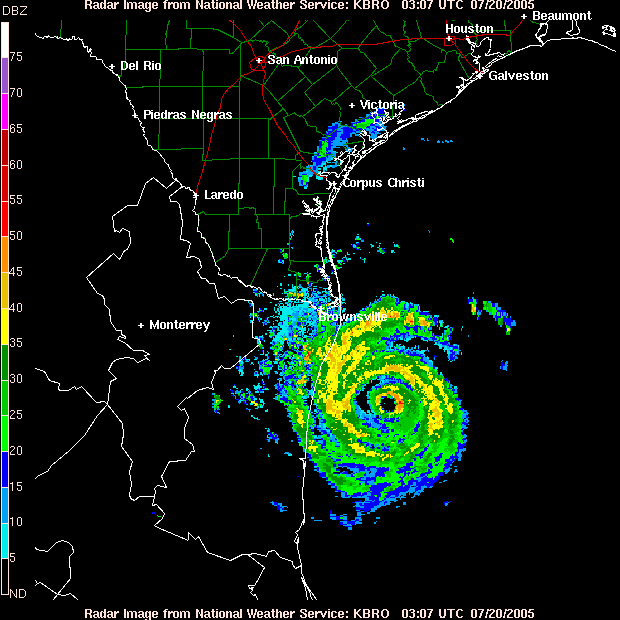 Hurricane Emily (2005), as seen by the US National Weather Service's NEXRAD in Brownsville, Texas at 10:07 CDT July 19 (0307 UTC July 20). The storm's eye is clearly visible, surrounded by the strong storms of the eyewall. At imaging time, Emily was a Category 3 storm with 125 mph (205 km) winds, was moving west-northwest at 7 mph (11 km/h), and was roughly 100 miles (160 km) away from the expected landfall location.